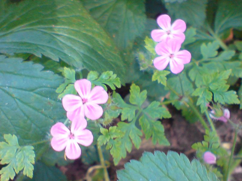 Geranium robertianum in Kew Gardens, England.